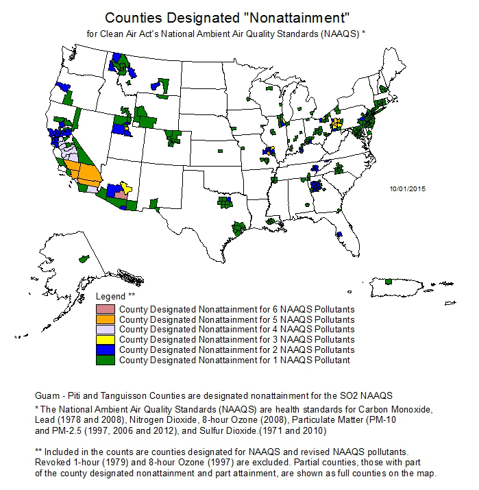 US Counties Designated Non-attainment according to Environmental Protection Agency's National Ambient Air Quality Standards. Image updated 10/01/2015.